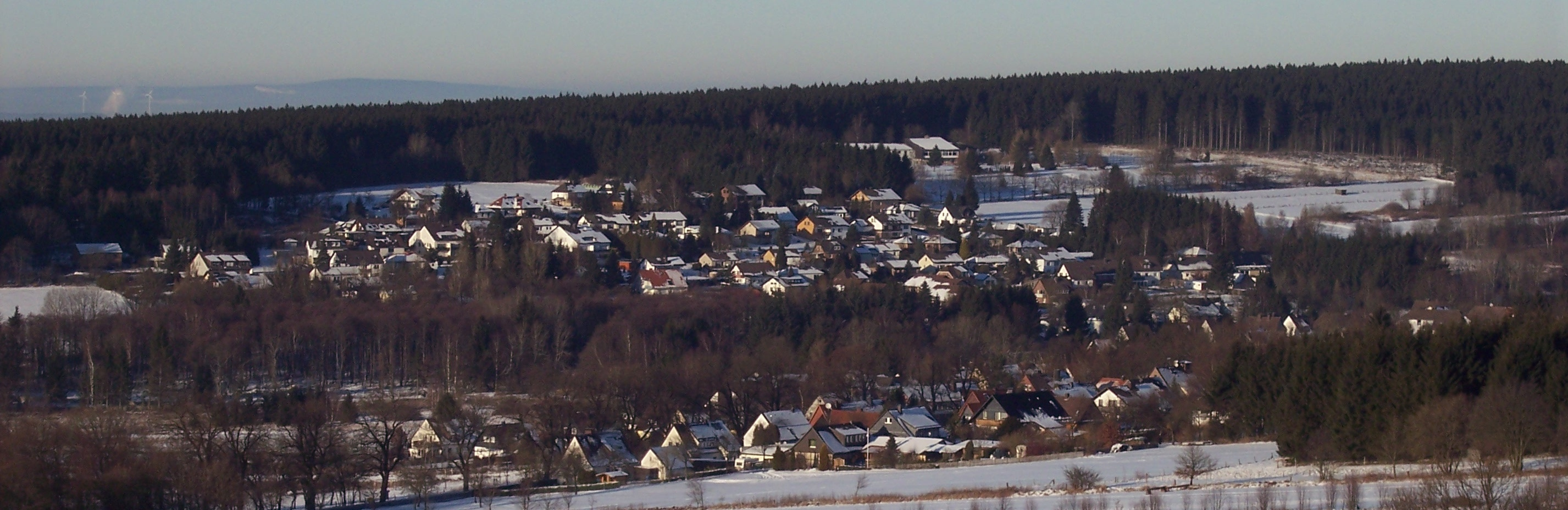 german village Silberborn (Solling, Lower Saxony). Taken from Moosberg